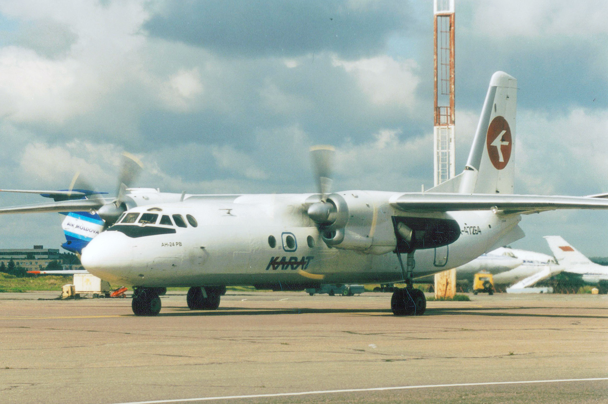 Antonov An-24RV of Karat Air departing from its main base at Moscow Vnukovo airport on 19th August 2003.